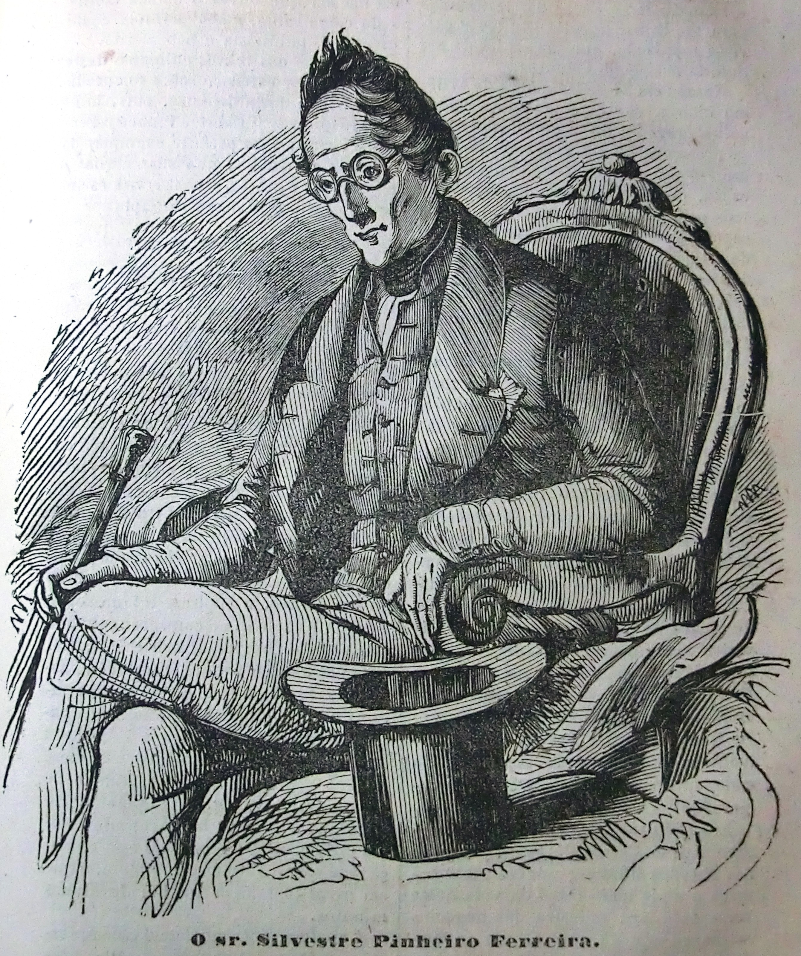 Silvestre Pinheiro Ferreira (1769-1846), in the periodical O Jardim Litterario – Semanário de Instrucção e Recreio, vol. VI, Lisbon, 1850, Typography Workshop of Maria Feliciana das Neves, Rua dos Cardaes de Jesus, nº 36.